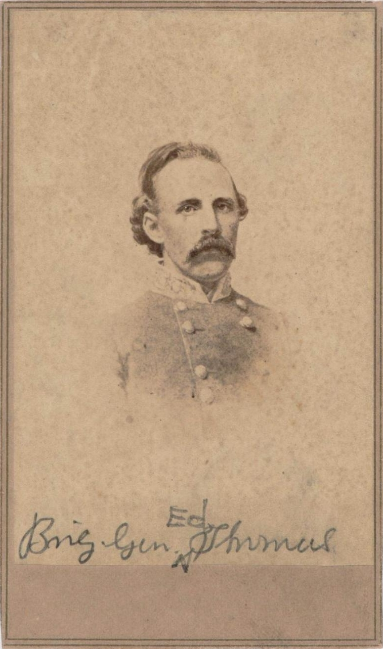 Carte-de-Visite of a bust portrait of Brigadier General Edward Lloyd Thomas in uniform. Inscription on front: Brig Gen. Ed Thomas. Inscription on back: Brig Gen Ed Thomas; Album R p. 33. From the Collections of the Confederate Memorial Literary Society managed by the Virginia Historical Society